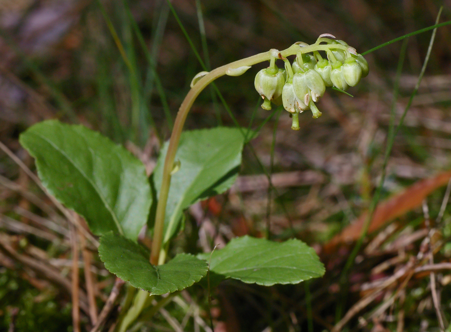 Habitus of a flowering Orthilia secunda.